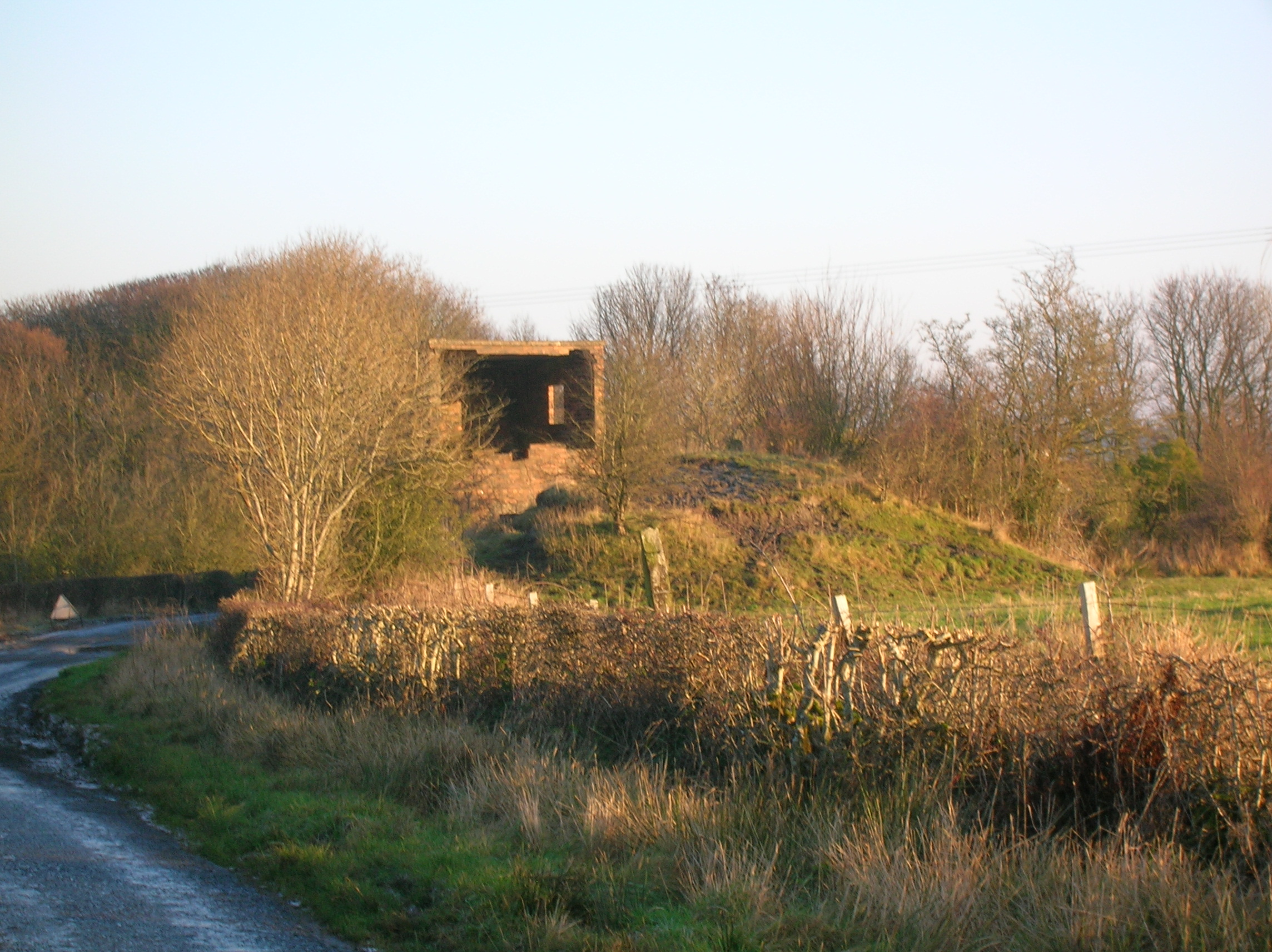 Ruins of the colliery at Benslie, North Ayrshire, Scotland